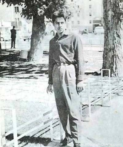 Young Khosrow Shakibai - Before 1979